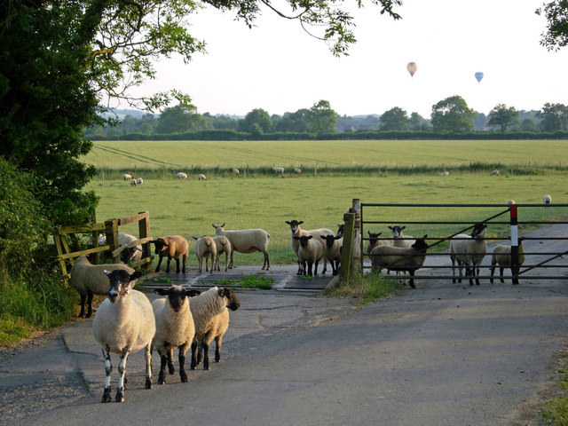 Sheep which have leapt over a cattle grid.